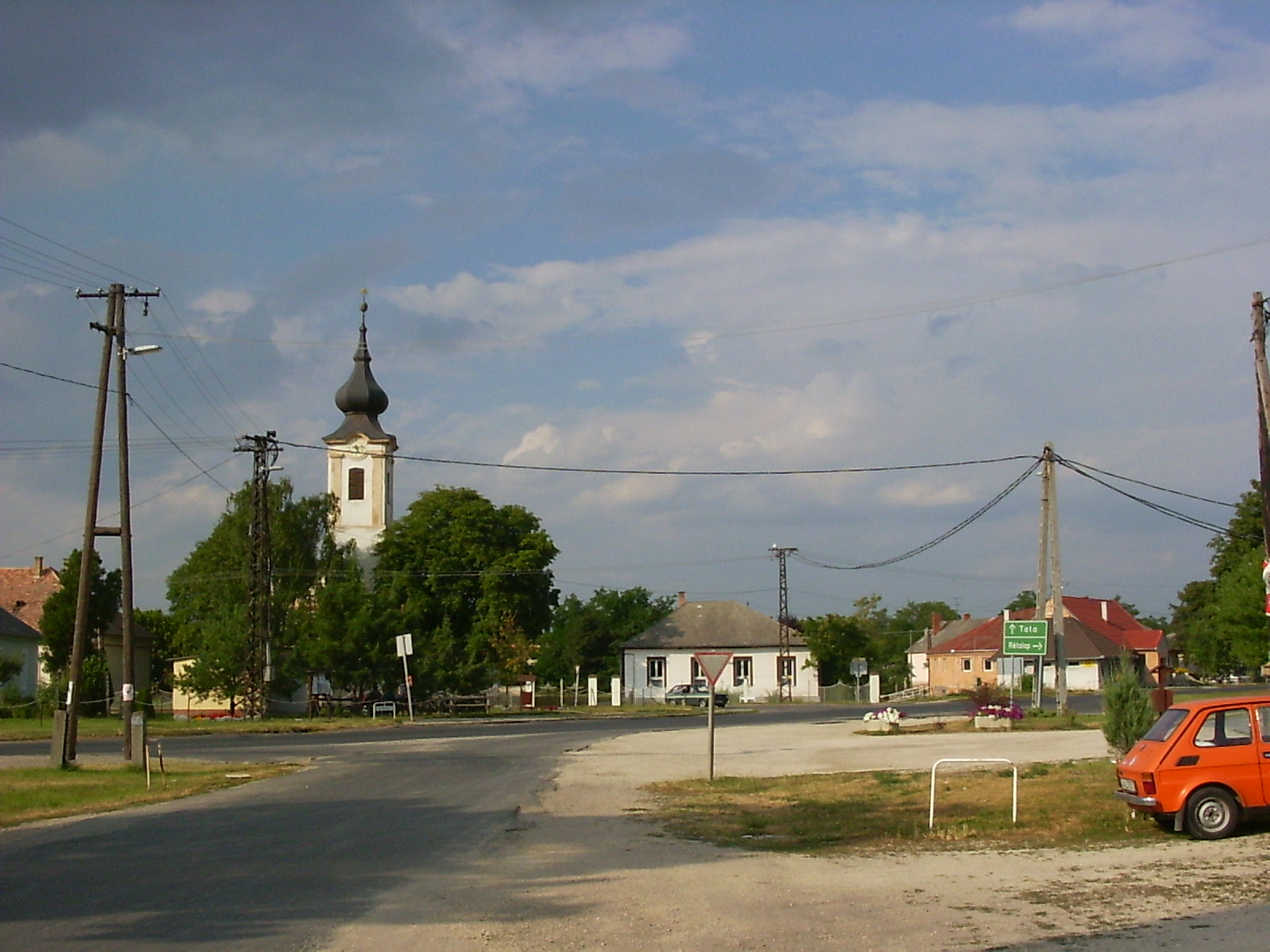 Bőny, center of the village